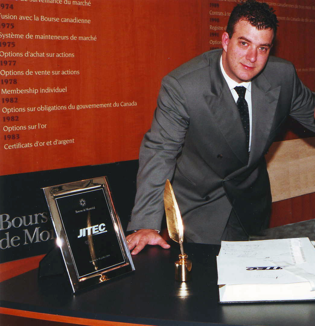 Benoit Laliberte on first day of JITEC trading at Montreal Stock Exchange